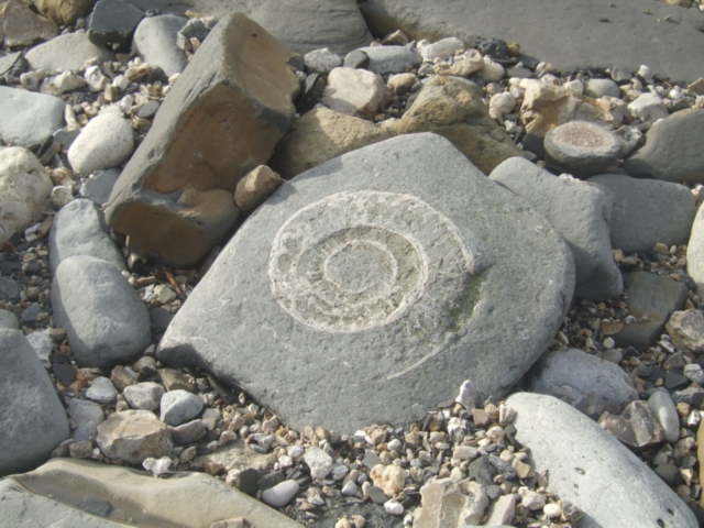 Ammonites on Monmouth Beach, Lyme Regis